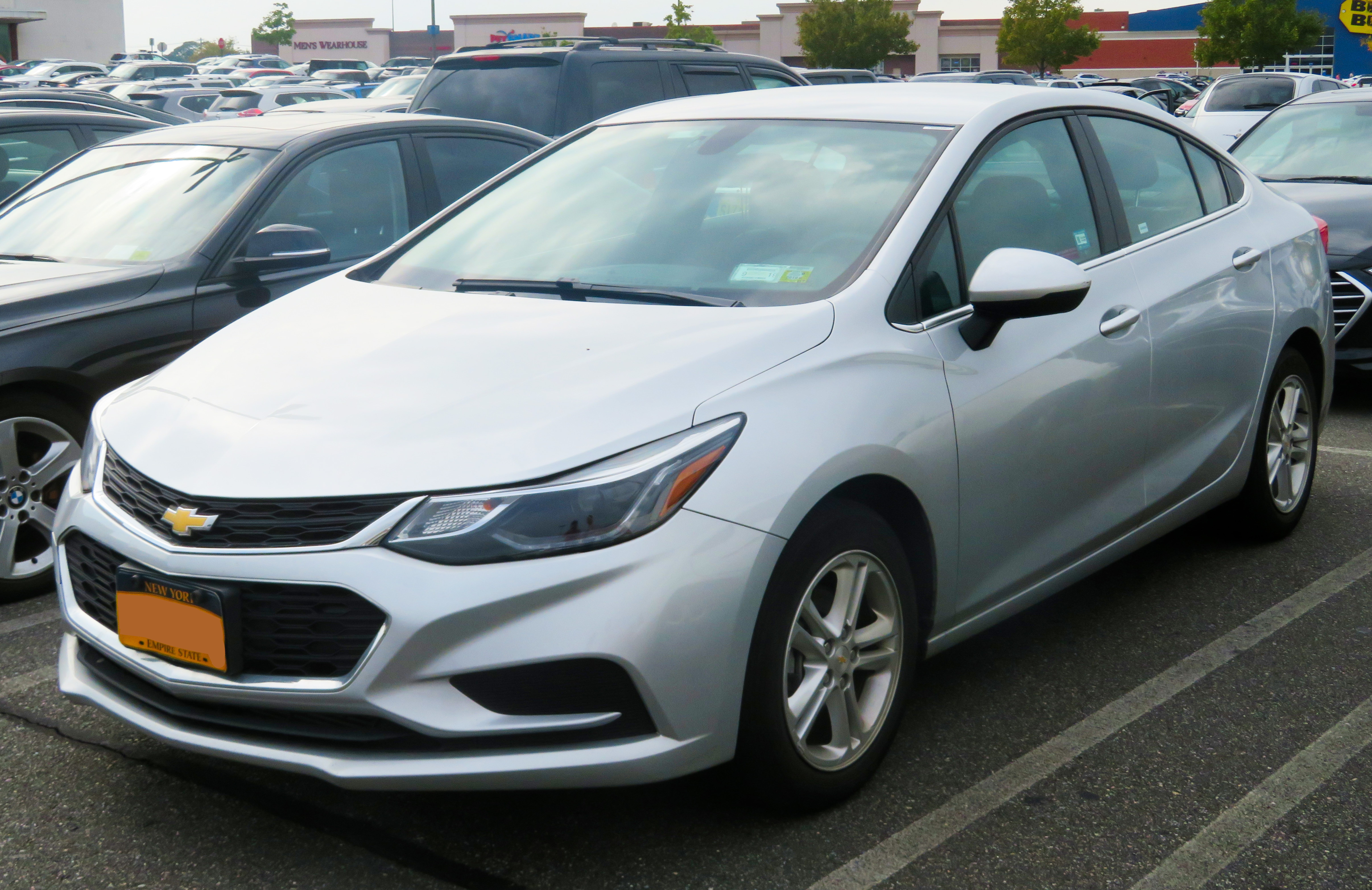 Photographed in Queens, New York